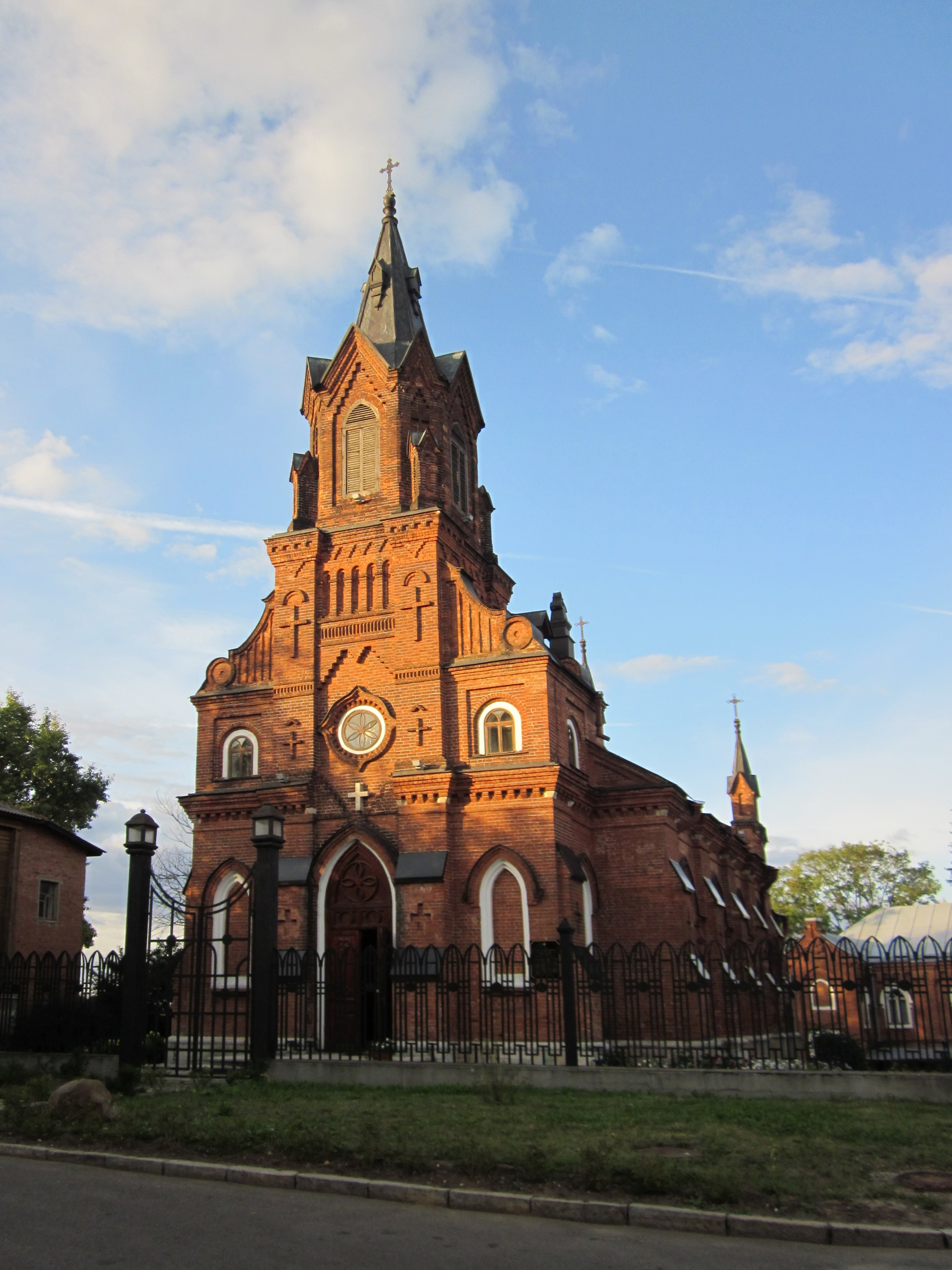 Our Lady of the Rosary Roman Catholic Church, Vladimir, Russia